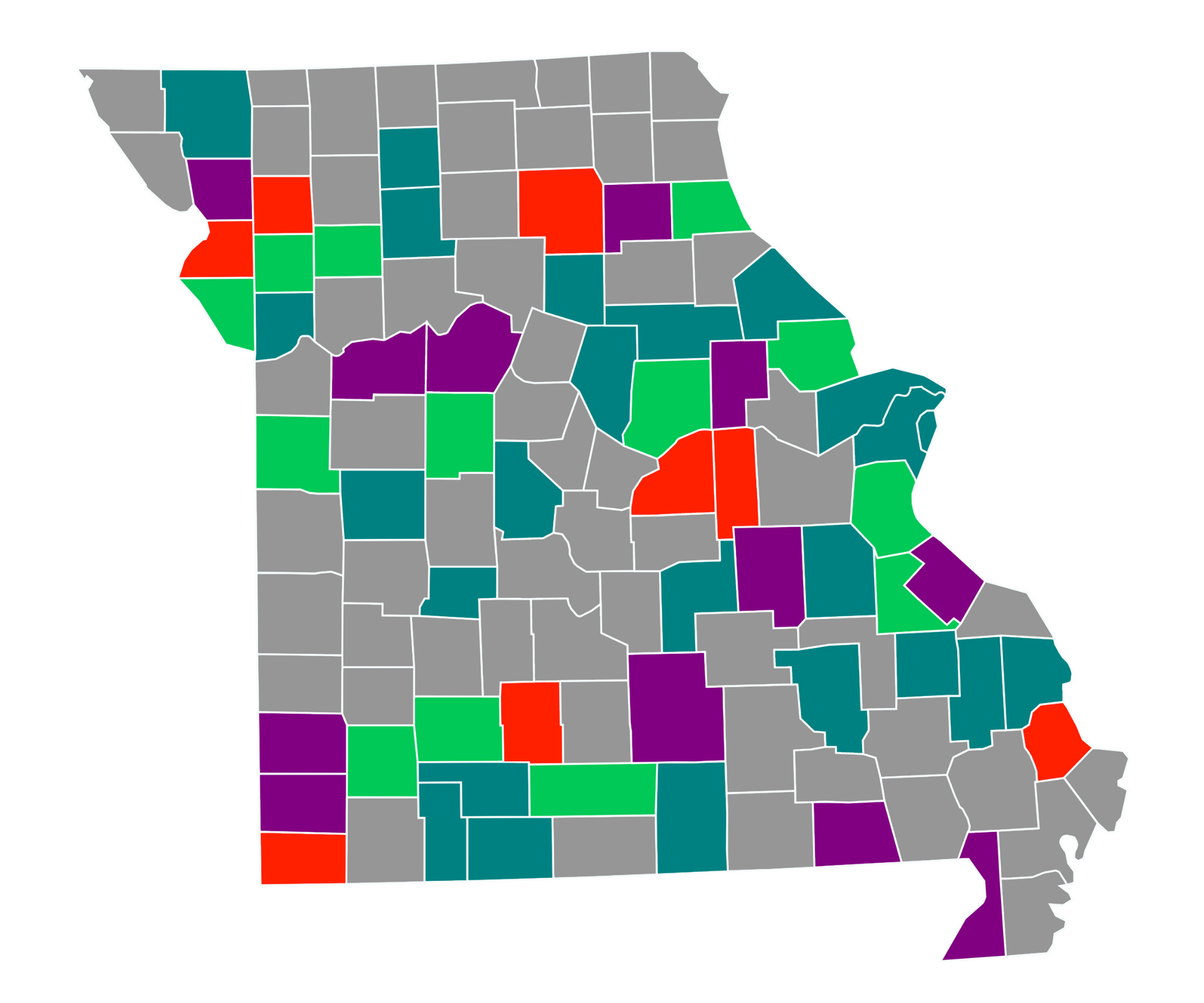 Teal counties represent Hawkins plurality. Green counties represent Uncommitted plurality. Purple counties represent Hunter plurality. Red counties represent Rolde plurality. Grey counties represent tie.